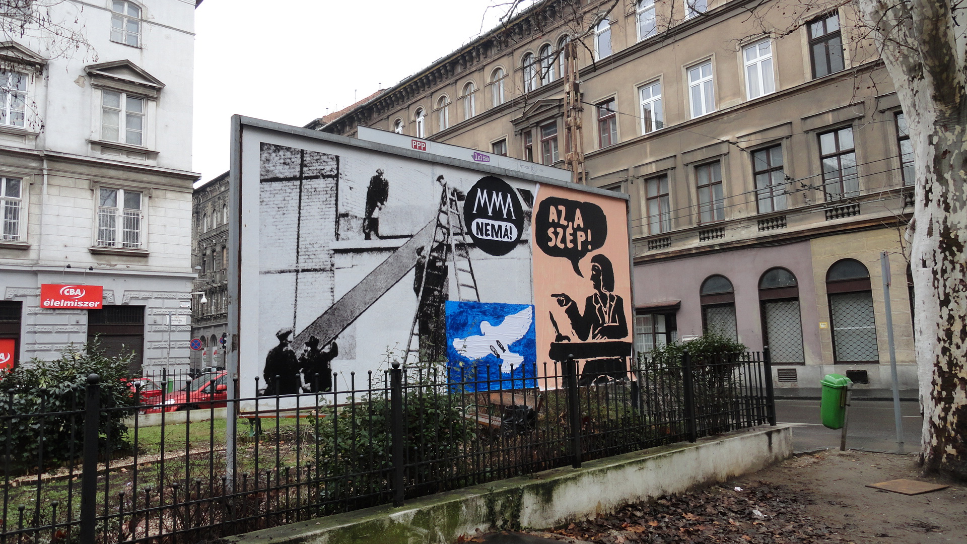 Artistic billboard by Király András on Lövölde square, Budapest.